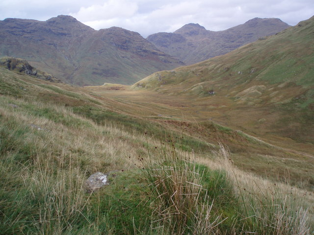 Munro View These 3 munros - Beinn a'Chroin, Cruach Ardrain and Bheinn Tulaichean were my first munros back in November 1981. Taken from the slopes of Stob an Duibhe to the south of River Larig